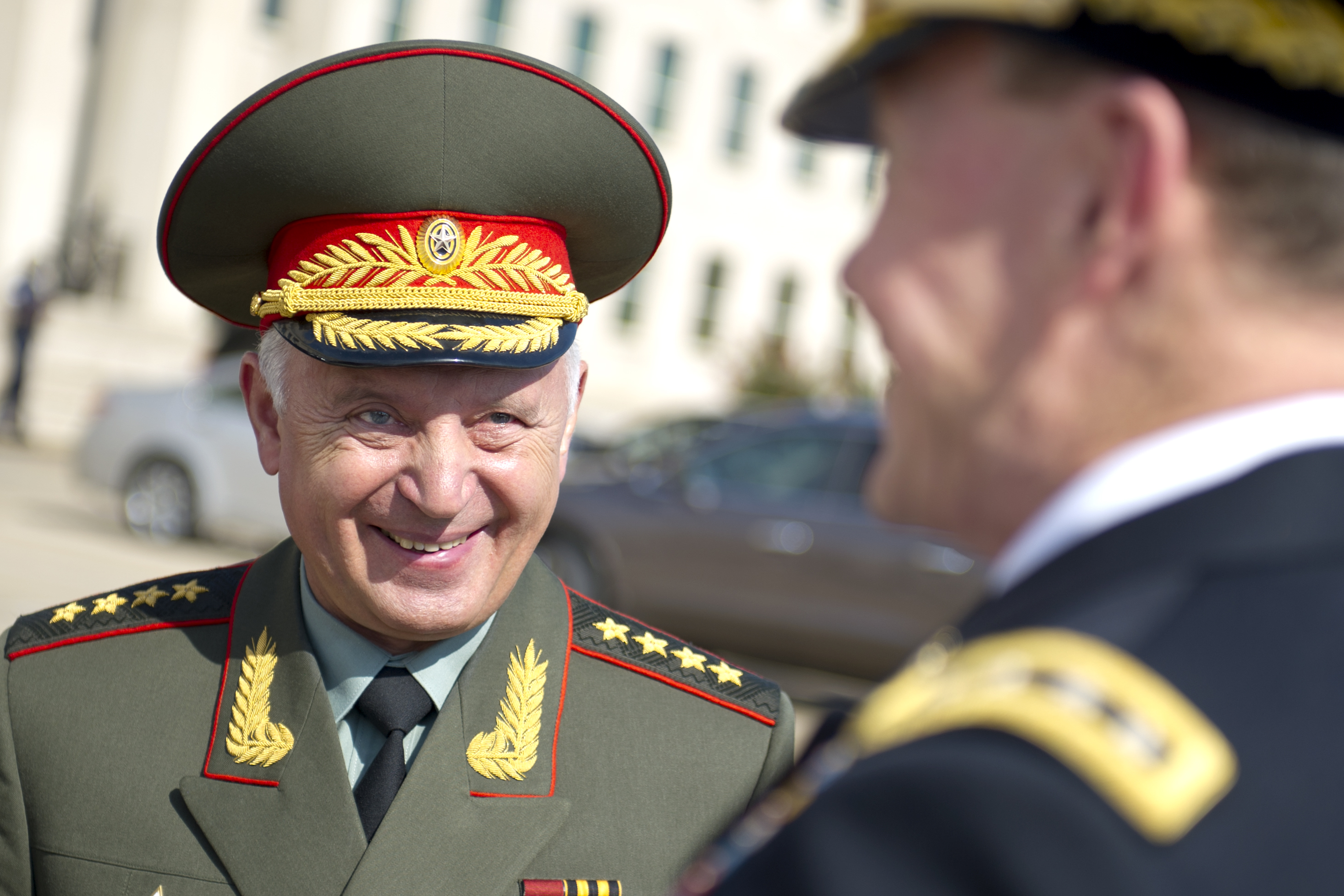 Russian Army Gen. Nikolay Y. Makarov, chief of the Russian general staff and first deputy defense minister general, left, talks with U.S. Army Gen. Martin E. Dempsey, chairman of the Joint Chiefs of Staff, before a full honor cordon at the Pentagon, July 12, 2012.